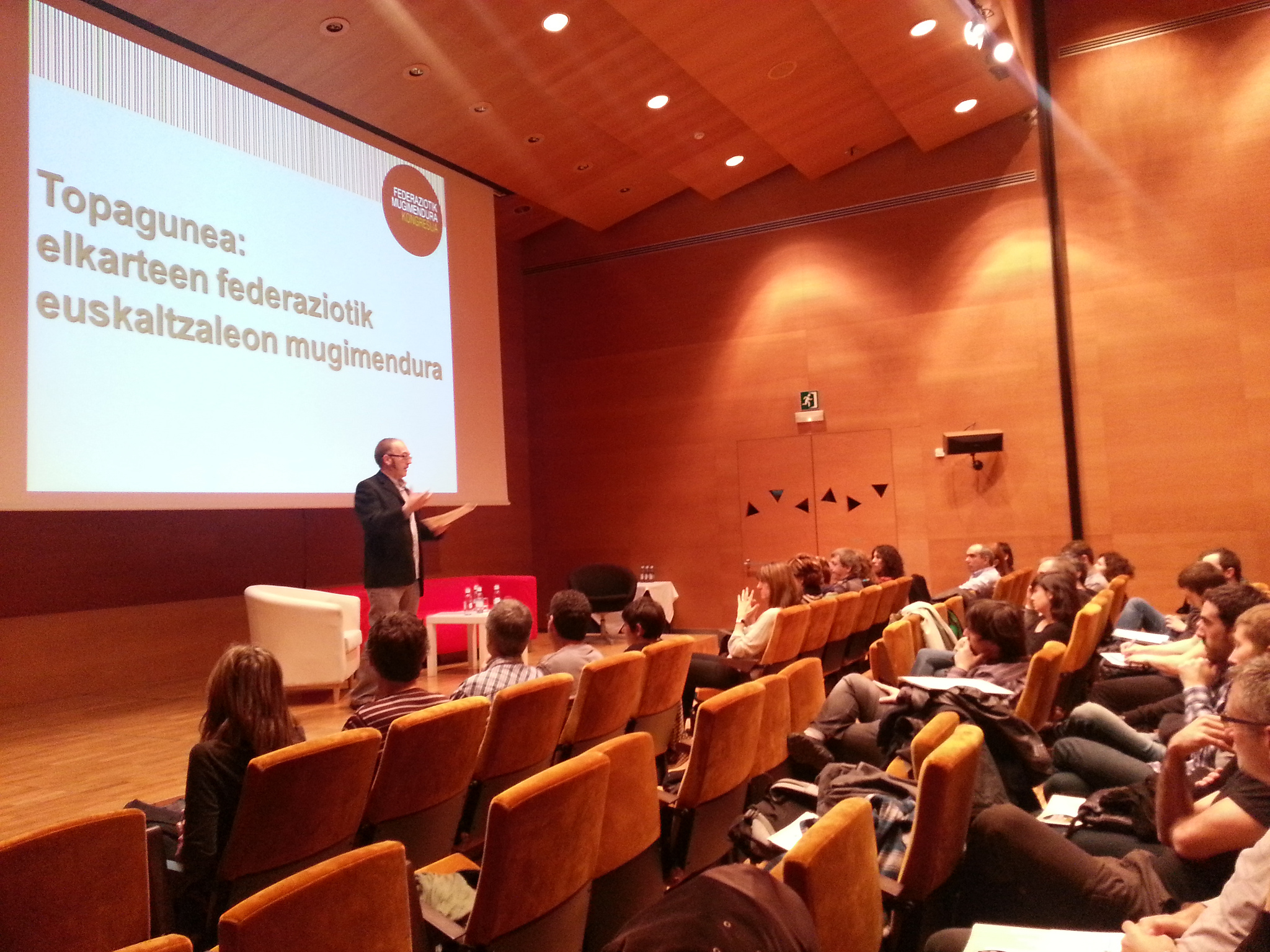 Mikel Irizar, president of Topagunea, at the second congress